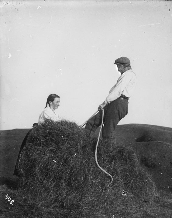 1907, hjónin Áslaug Sigurðardóttir og Stefán Helgason í heyvinnu á Arnarvatni. Hey bundið í bagga. Ljósmyndari / Photographer: Magnús Ólafsson Format: Glerplata / Glass negatives, 12 x 16 cm. Höfundarréttur / Rights Info: Enginn þekktur höfundarréttur / No known restrictions on publication. Geymsla / Repository: Ljósmyndasafn Reykjavíkur / Reykjavík Museum of Photography, Tryggvagata 15, 6. Hæð / 6th floor Númer myndar / Call Number: MAÓ 448 Myndavefur Ljósmyndasafnsins / Reykjavík Museum of Photography´s photoweb: ljosmyndasafn.reykjavik.is/fotoweb/Grid.fwx